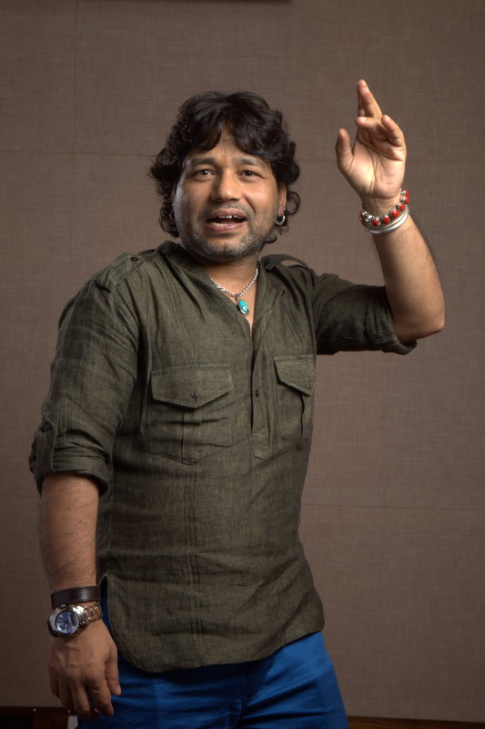 This is image of Mr Kailash Kher.